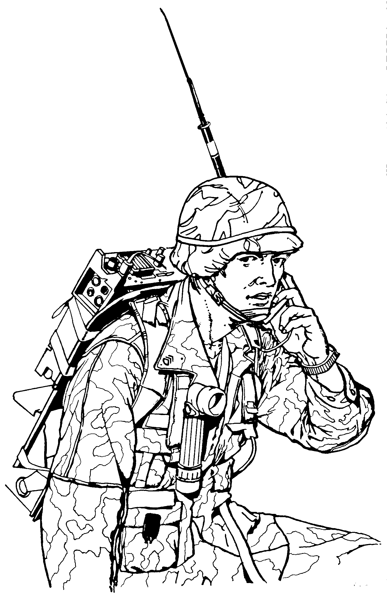 Sketech of an AN/PRC-77 field radio in use